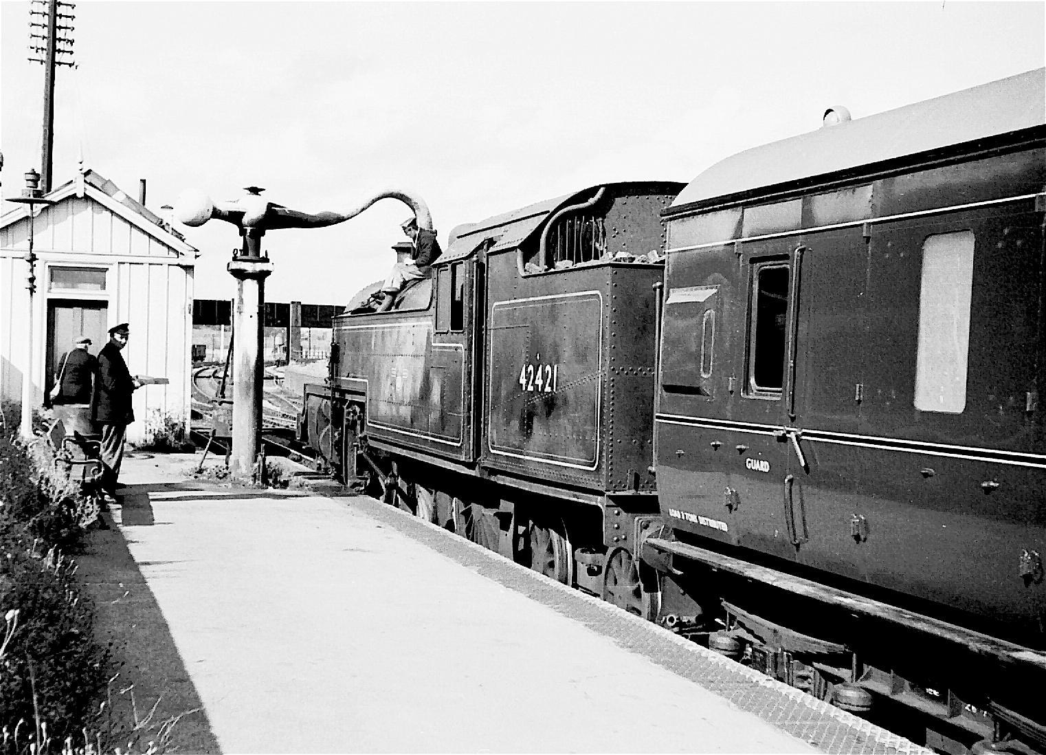 Evesham MR station. LMS Fowler Class 4 2-6-4T No. 42421 taking on water